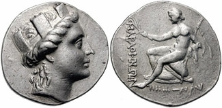 PHOENICIA, Marathos, 3rd Century BC. Silver Tetradrachm (16.94 gm). Dated year 37 (223/2) BC. Turreted head of Tyche right / ΜΑΡΑΘΙNΩΝ, Marathos seated left on pile of shields, holding aphlaston and filleted branch; date in Phoenician characters below.